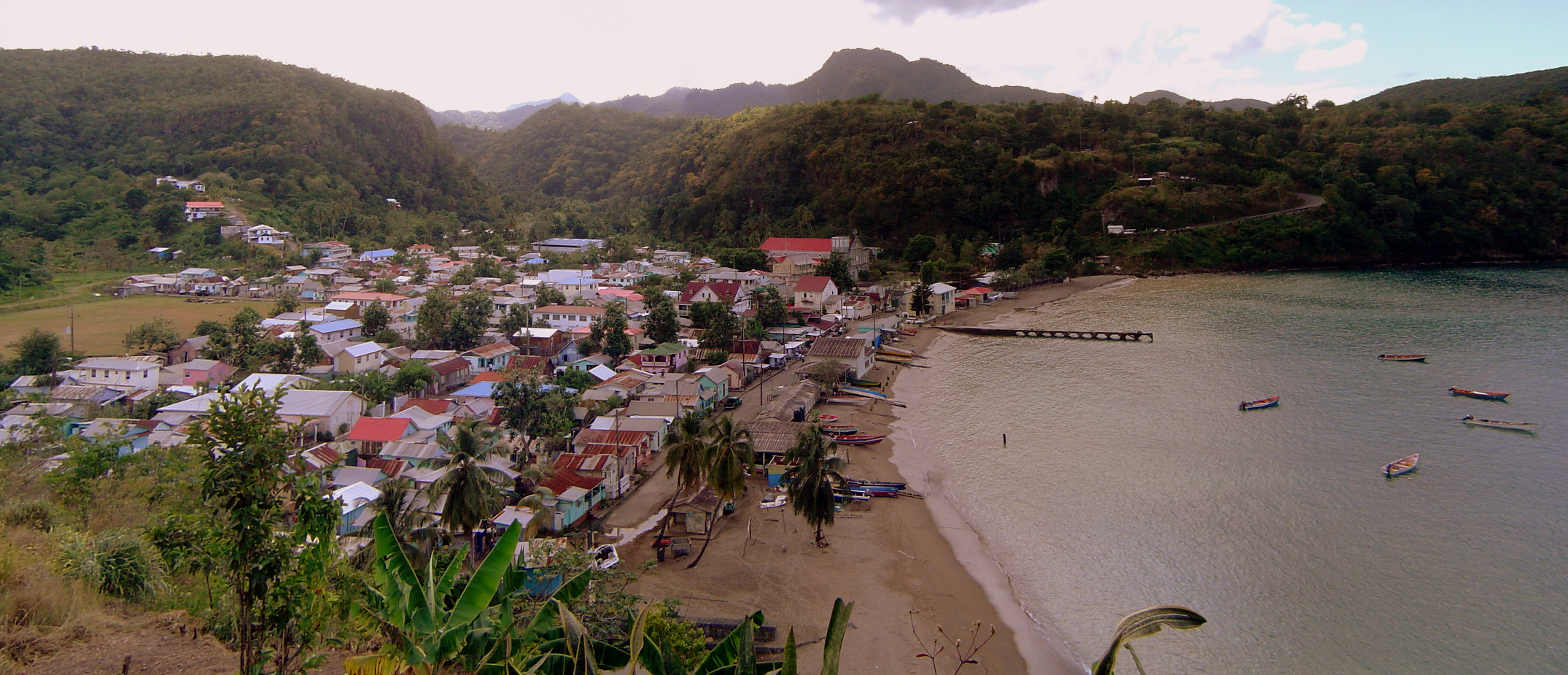 Photograph of Anse la Raye, St Lucia